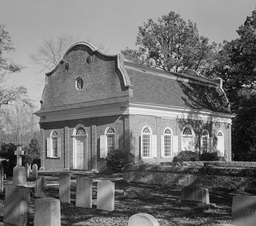 St. Stephen's Episcopal Church (Berkeley County, South Carolina) (cropped)